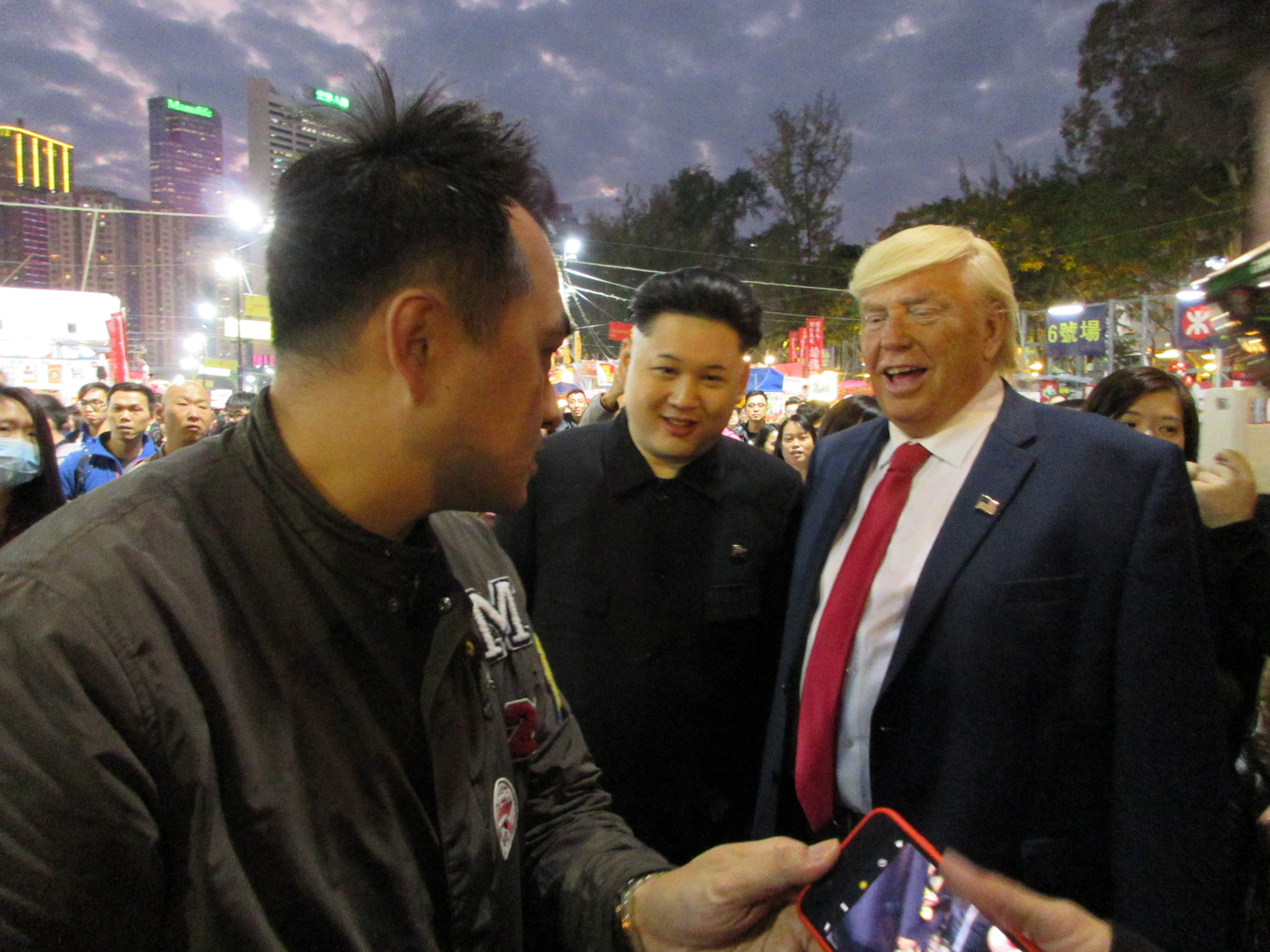 HK CWB Victoria Park night visitors artists US Mr President 唐納約翰川普 Donald John Trump n 金正恩 Kim Jong-Un in Jan 2017